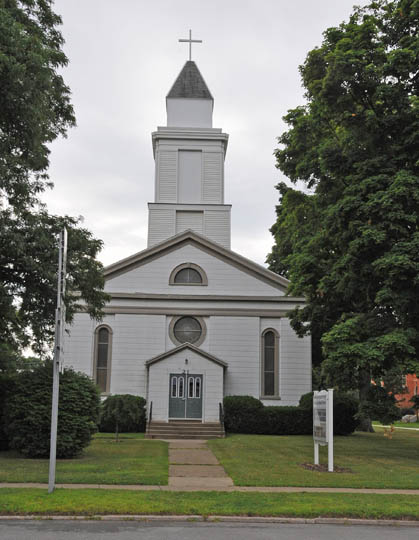 DEDICATED IN 1847; IN THIS CHURCH, CLARA BARTON (A SUMMER RESIDENT OF DANSVILLE) ORGANIZED THE FIRST LOCAL CHAPTER OF THE AMERICAN RED CROSS IN 1881